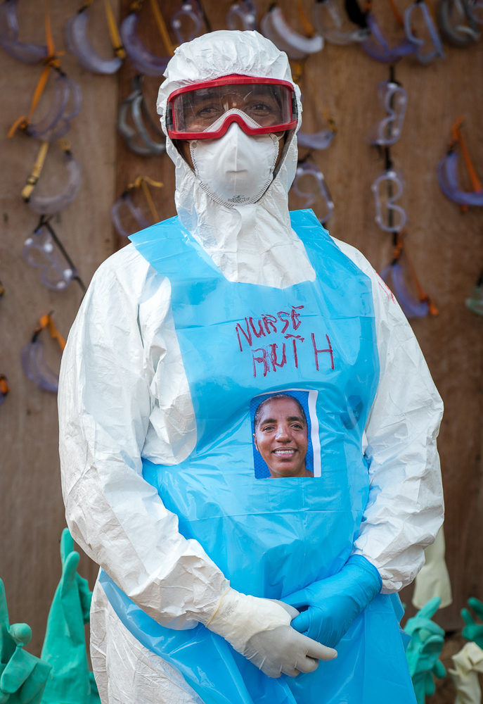 Photo of Ruth Johnson, R.N., a health care worker at the ELWA 2 ETU (Ebola Treatment Unit) in Paynesville, Liberia on Friday, March 6, 2015. Occidental College art professor Mary Beth Heffernan’s PPE Portrait Project creates wearable portraits of the health care workers who must wear PPE (personal protective equipment) when working with Ebola patients. (Photo by Marc Campos, Occidental College Photographer)